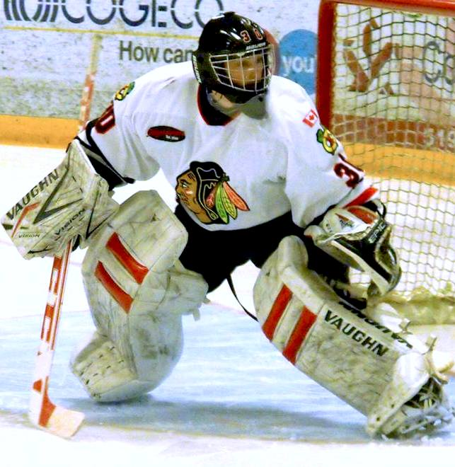 These images of OHA Jr. C action during the 2013-14 season are taken by Devan Mighton.